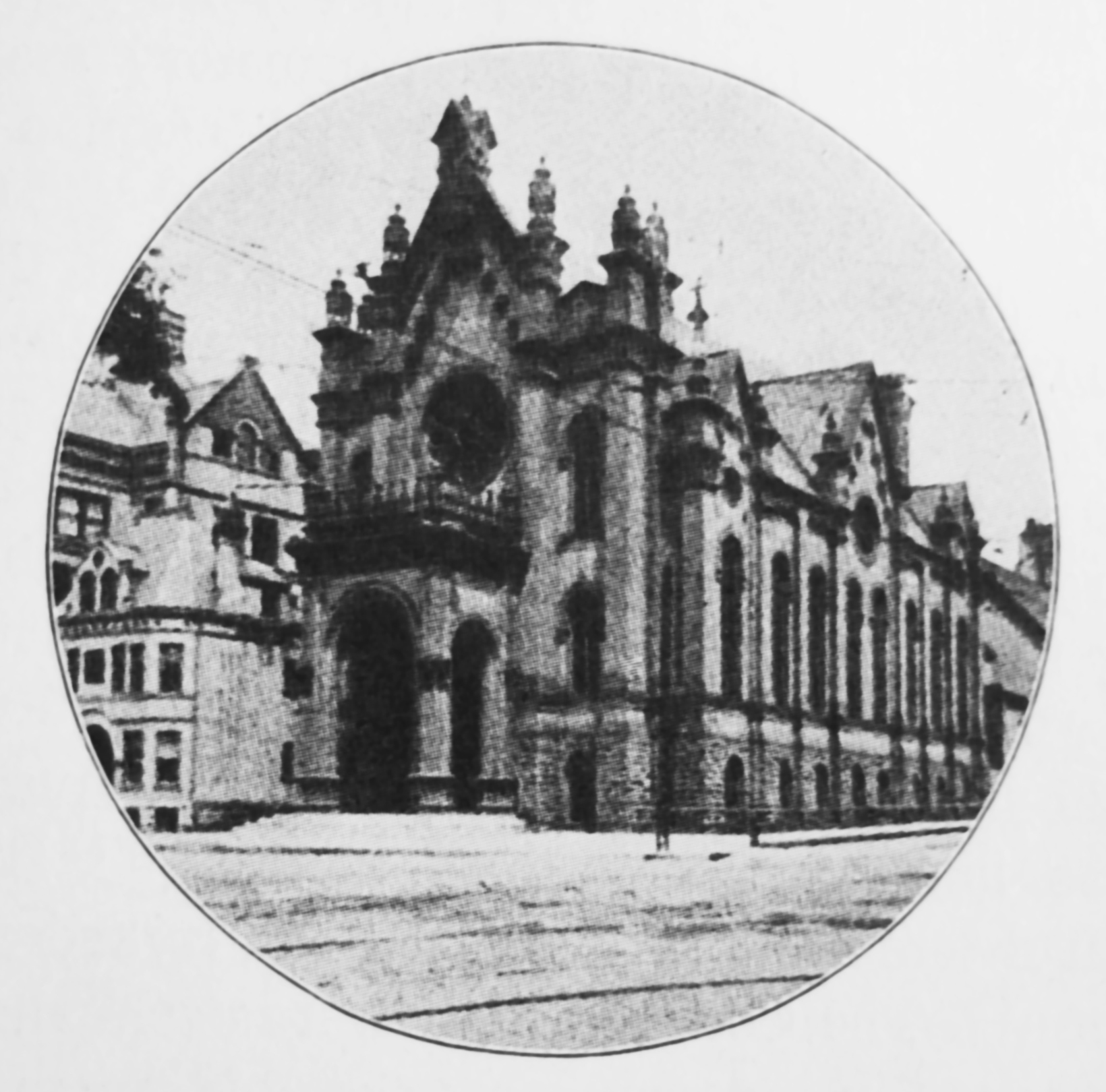 Temple Emanu-El at the corner of Broadway and Martin Street (now State Street), Milwaukee, Wisconsin, was constructed in 1872. The congregation moved to a new building in 1923.